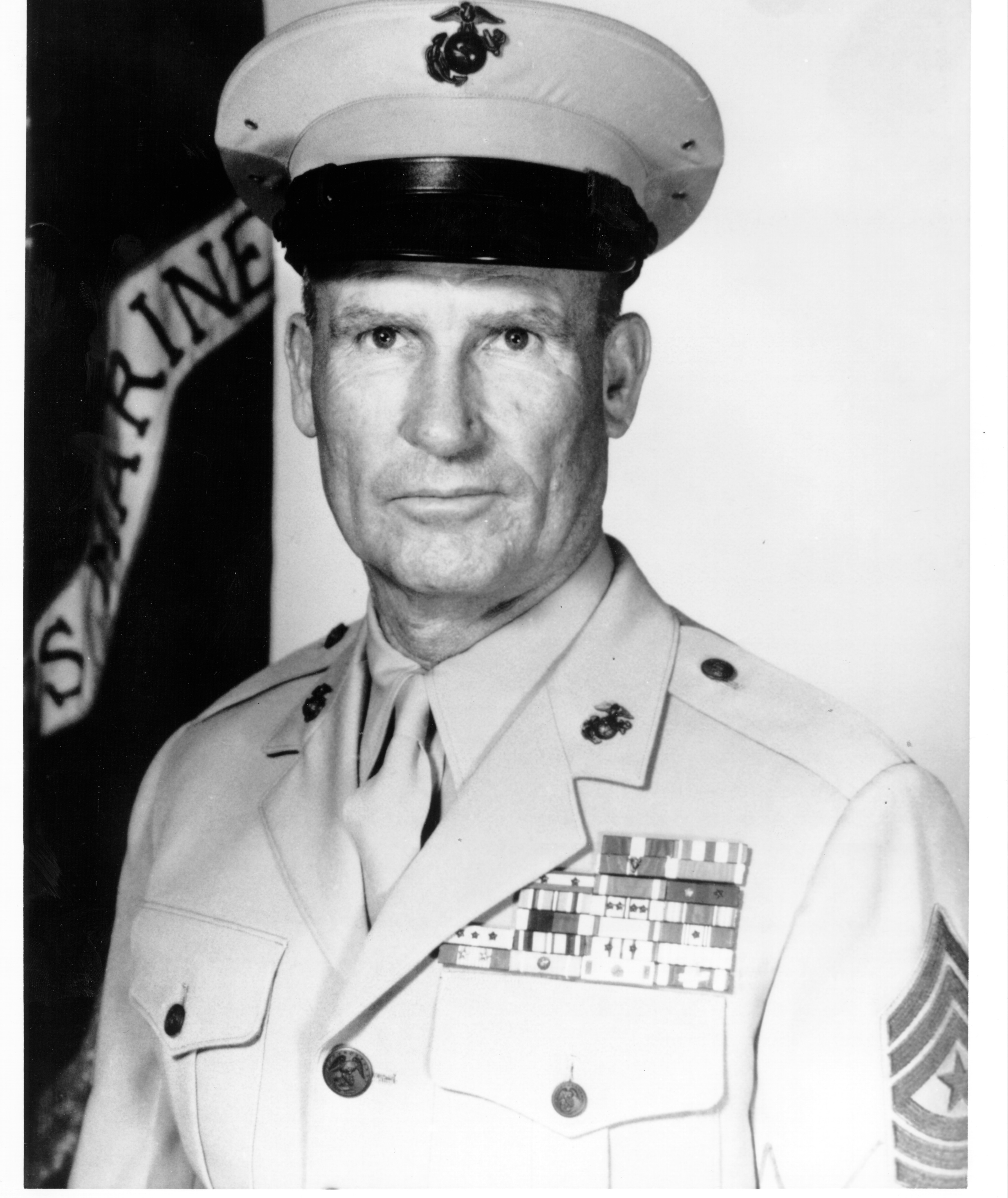 Sergeant Major Joseph W. Dailey, USMC, the 5th Sergeant Major of the Marine Corps. Photography by U.S. MARINE CORPS